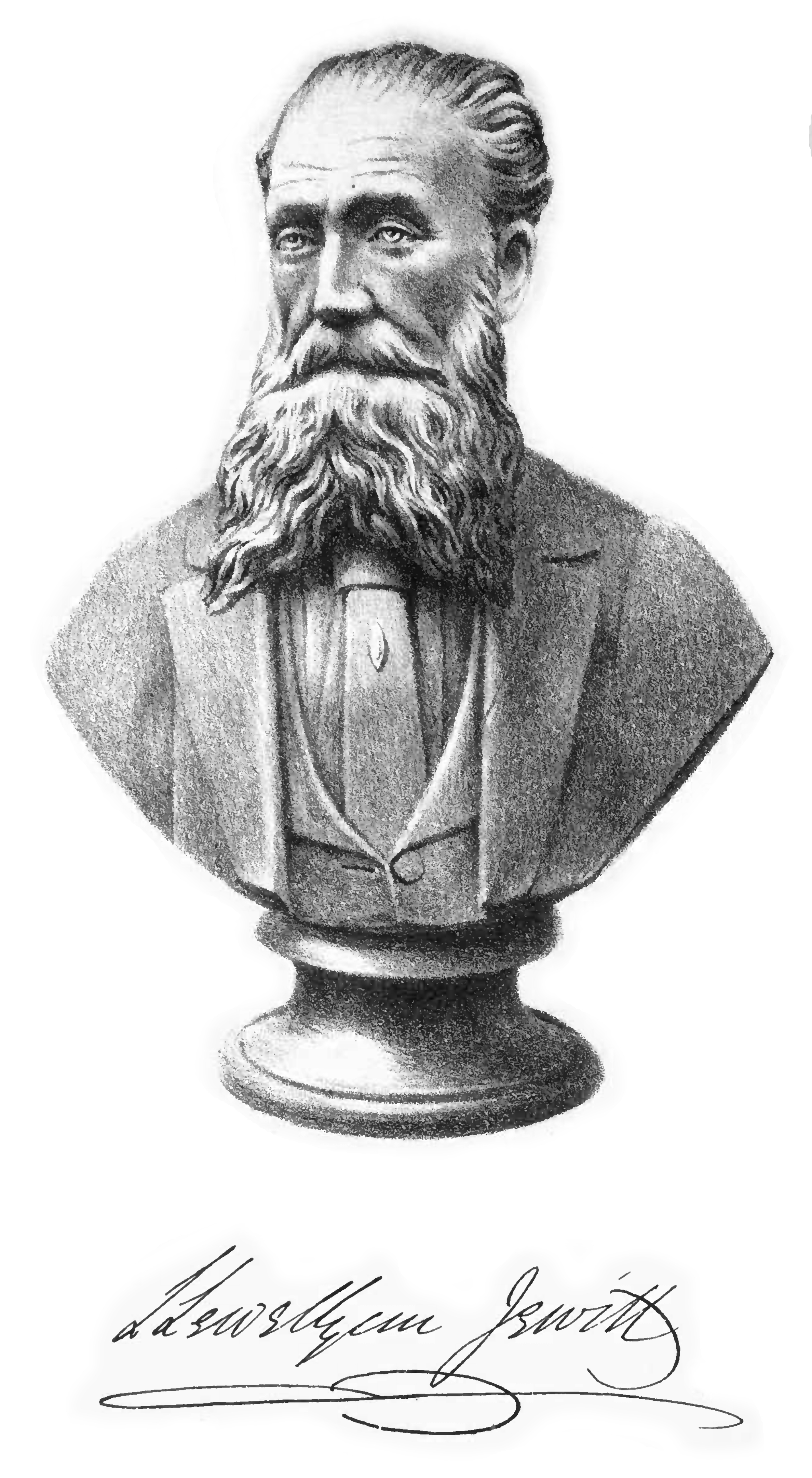 engraving of the bust of Llewellynn Jewitt. The engraving is made by Llewellyn Jewitt according the bust made by W. H. Goss